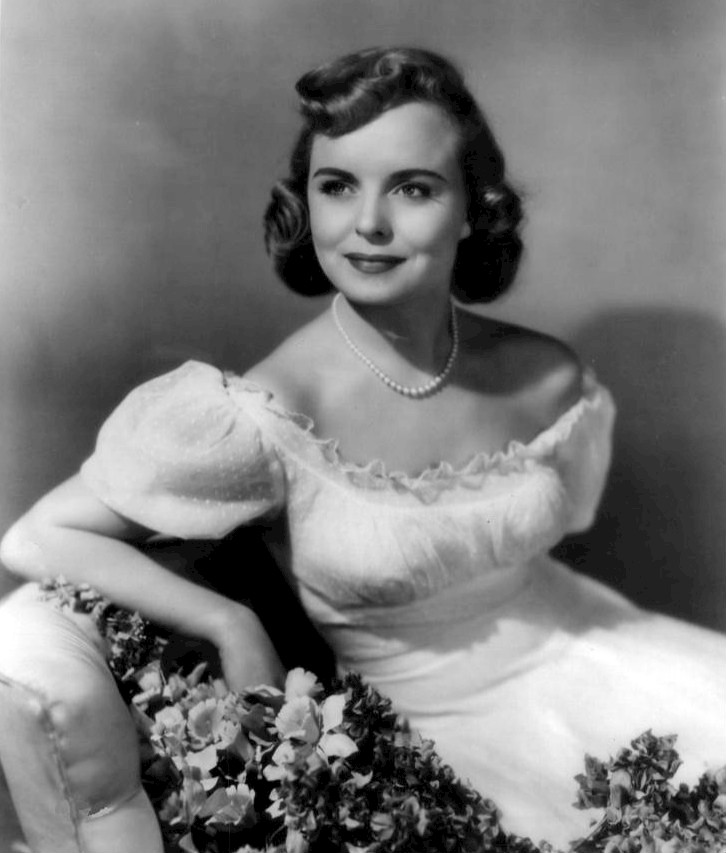 Photo of actress Meg Randall from a guest appearance on Lux Radio Theatre.